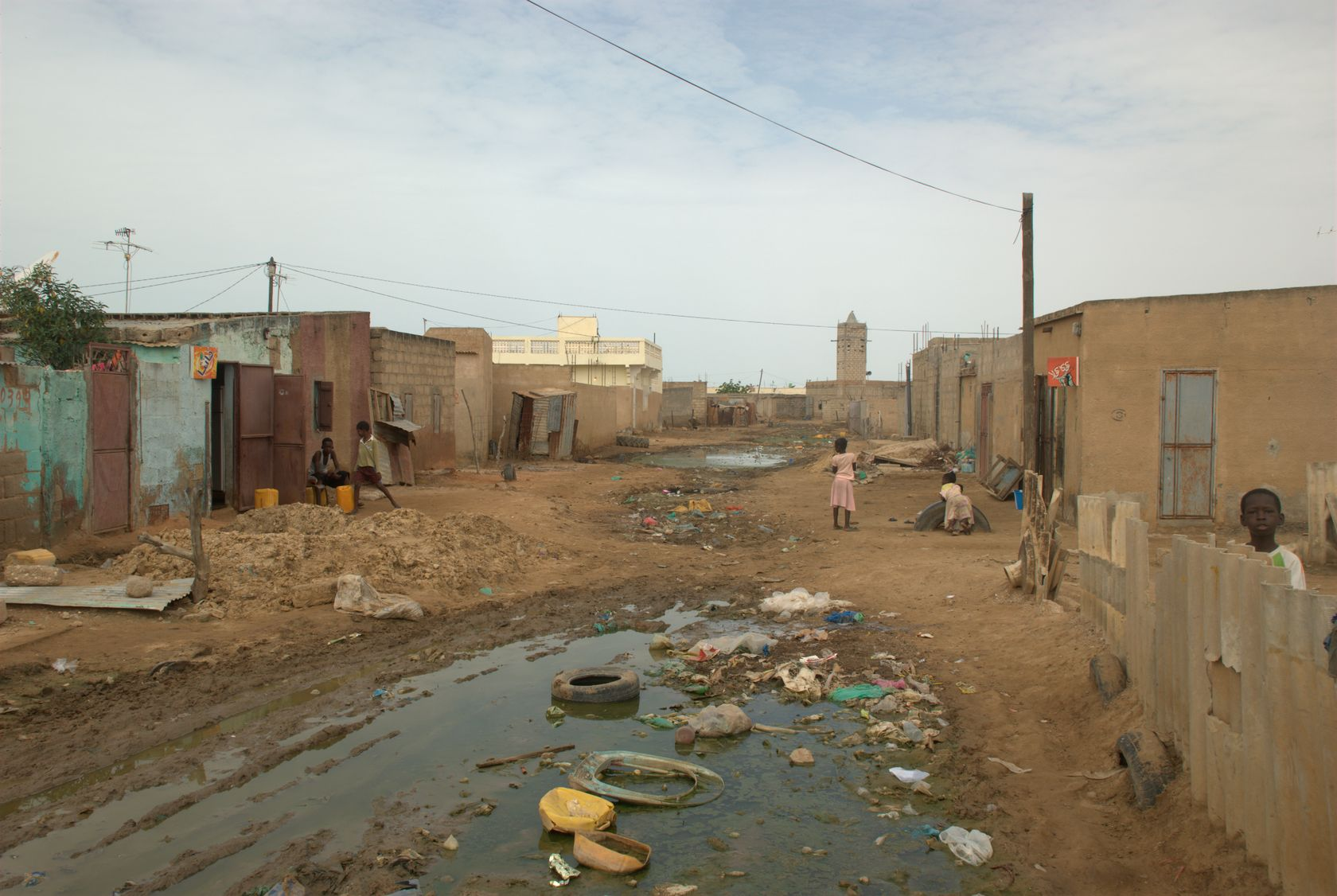 Rosso, Mauritania, east